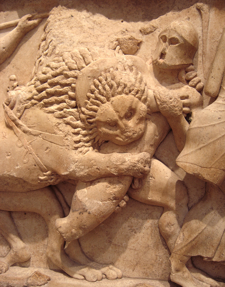 Fragment of frieze. Archaeological Museum of Delphi, Greece.